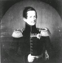 William, Duke of Nassau (1792-1839)